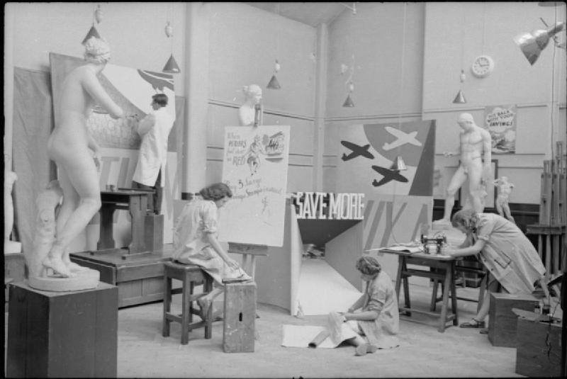 The National Savings Scheme at work in Canterbury, England, 1941 Students at the Sydney Cooper School of Art, St Peter's Street, Canterbury, work on savings posters and displays. A slogan on one poster reads: 'When players fail, don't see red, buy 3 large saving stamps instead!'. The students are surrounded by statues of nudes and there are many other savings posters in progress around the room, including one featuring silhouettes of aircraft.